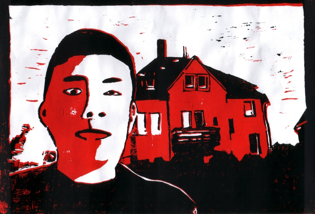 This picture shows a colour linocut.